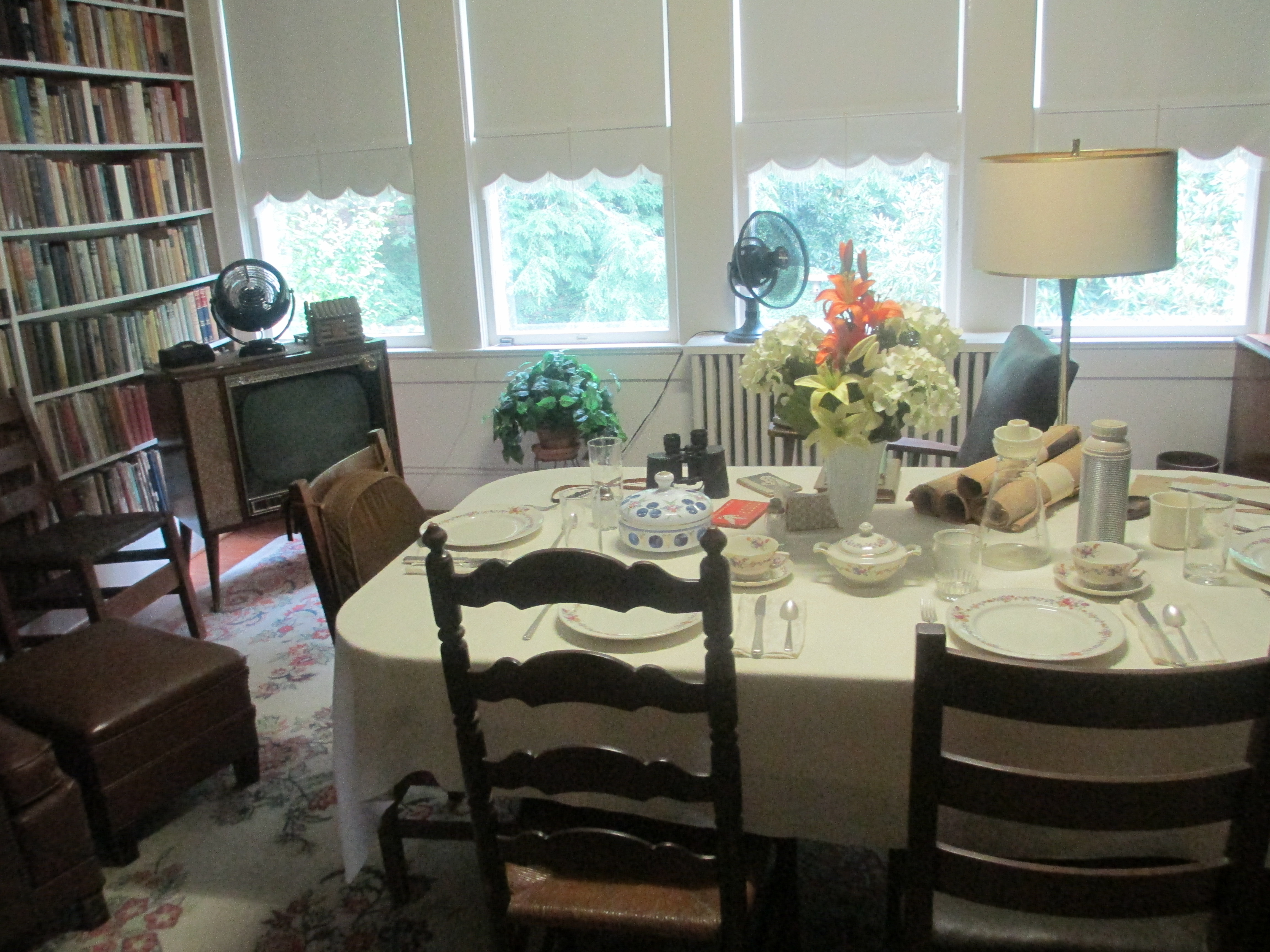 I took photo with Canon camera of Sandburg dining room, using Canon camera.